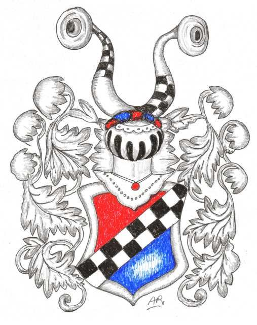 Drawing of Arnstein Rønning using the image of a tomb i Hedrum church. The Friis family.